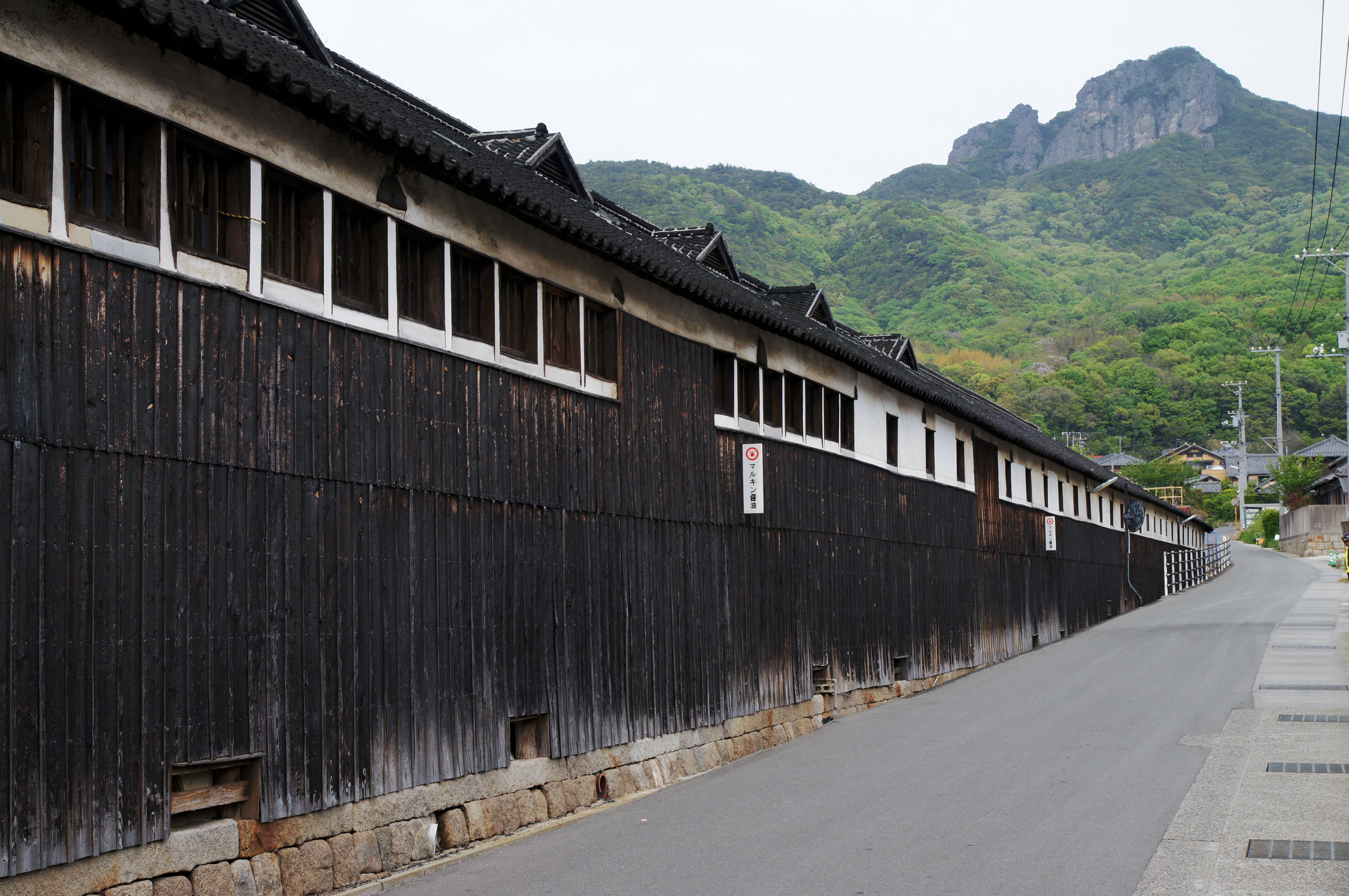 Hishio-no-sato of Shodo Island in Shodoshima, Kagawa prefecture, Japan